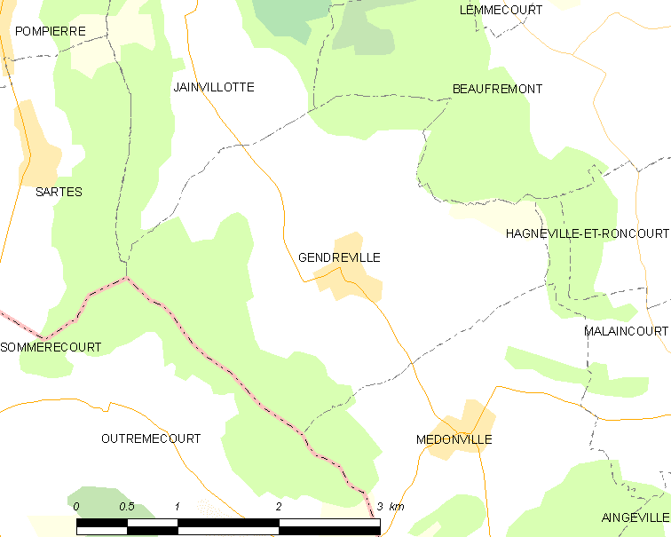 Map of French municipality Gendreville